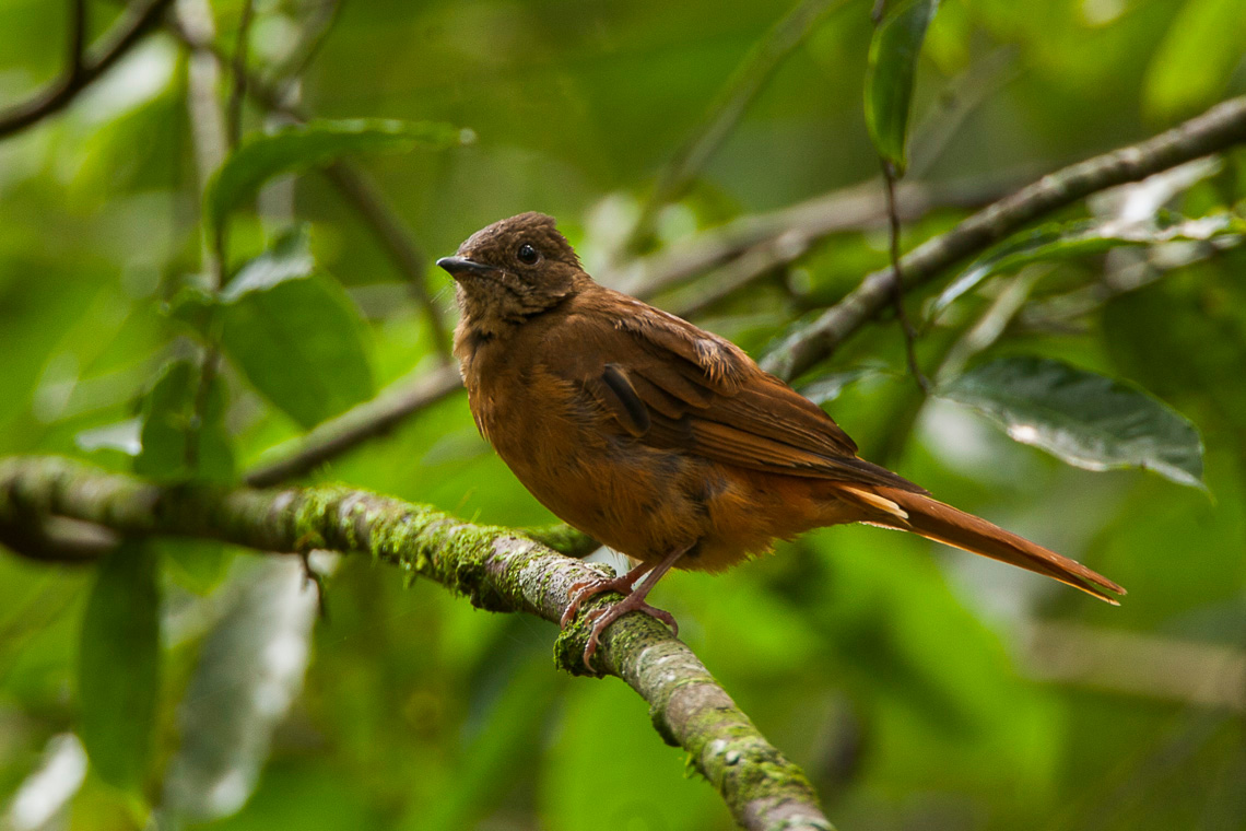 Rufous Flycatcher-Thrush - Uganda_Budongo Uganda 06_4875